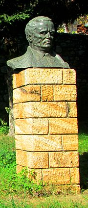 Monument of Marshal Tito in the yard of the house Jovanovci